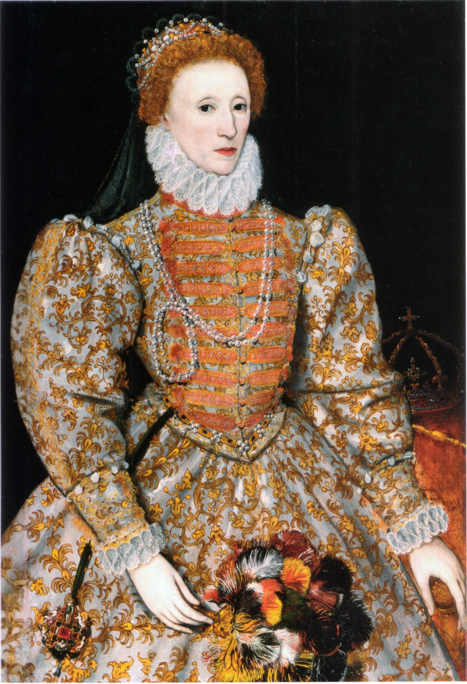 The "Darnley Portrait" of Elizabeth I of England, oil on panel, 113 x 78.7 cm, National Portrait Gallery, London (NPG 2082). Probably painted from life, this portrait is the source of the face pattern called "The Mask of Youth" which would be used for authorized portraits of Elizabeth for decades to come.